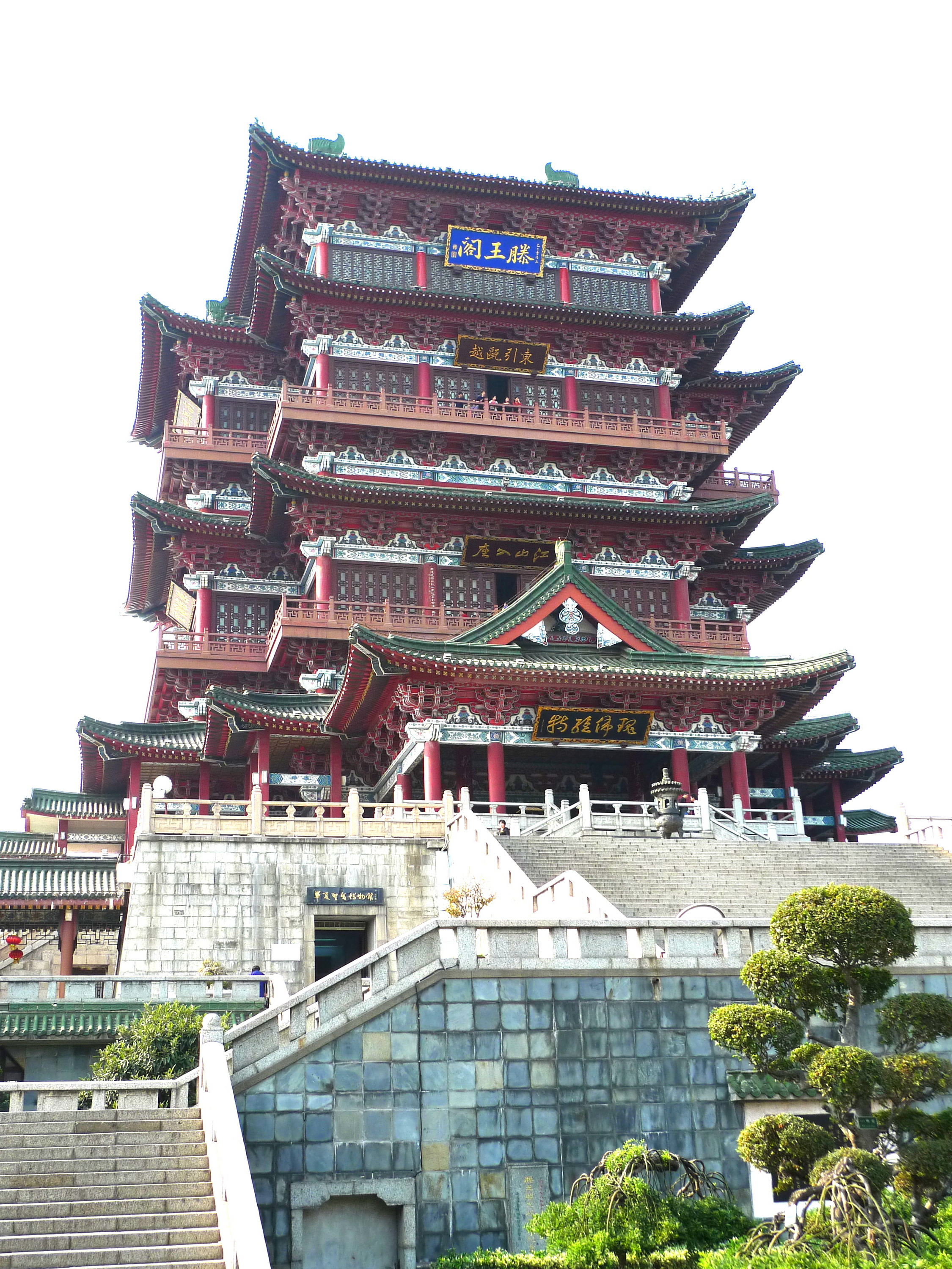 Pavillion of Prince Teng — front facade view.